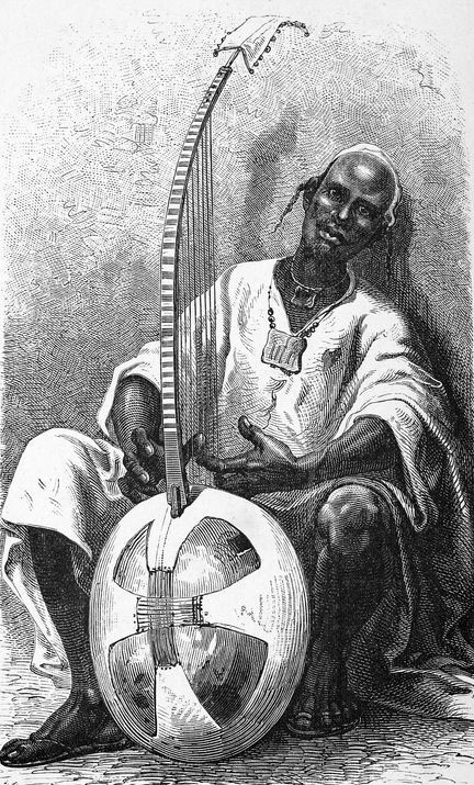 View of Koundian